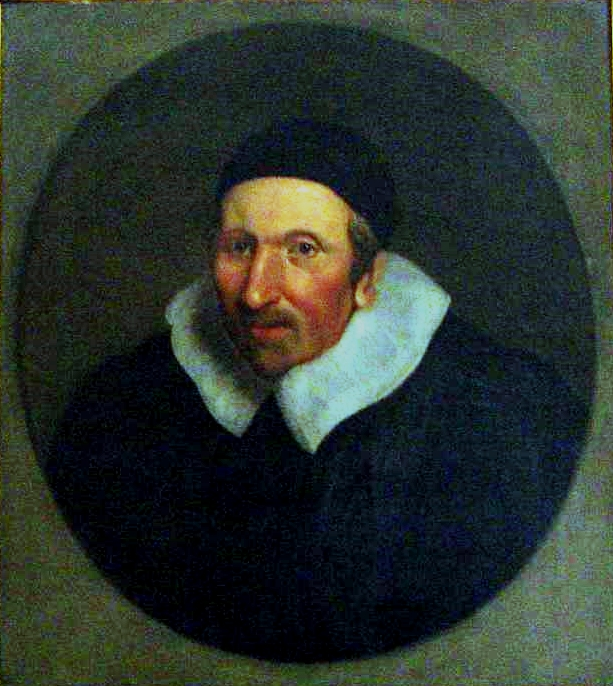 James Palmer priest (died 1660) Portrait of James Palmer, now hanging in the committee room of the Westminster Almshouses Foundation. It may have been painted by Peter Lely, but is more likely to have been done by one of his followers.